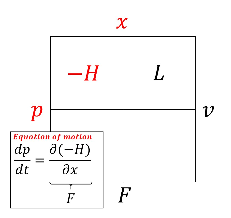 Hamiltonian and Equation of motion(using Thermodynamic square)